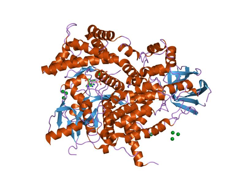 Cartoon representation of the molecular structure of protein registered with 1e8x code.